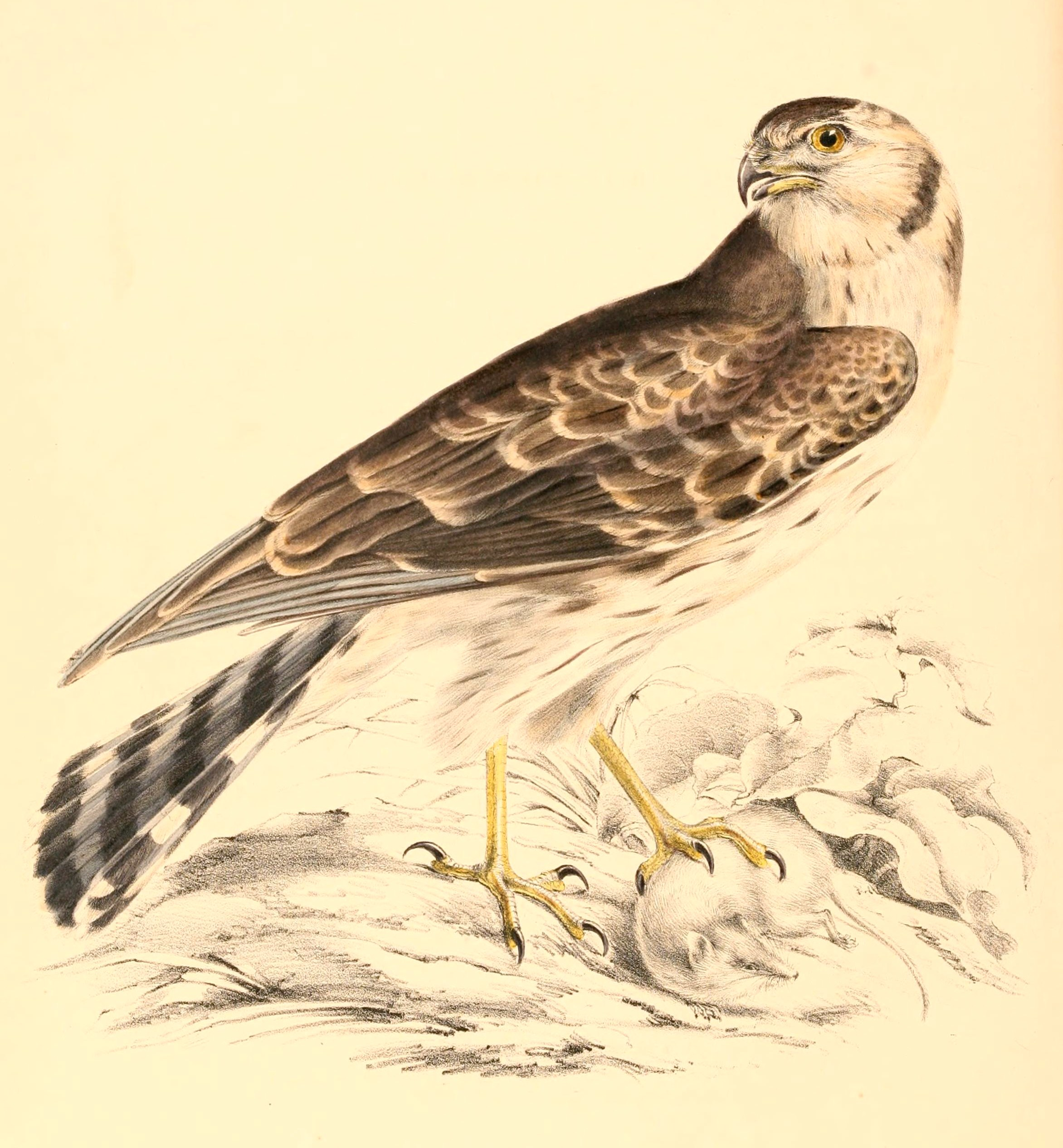 « Circus maurus » = Circus maurus (Black Harrier) - young female